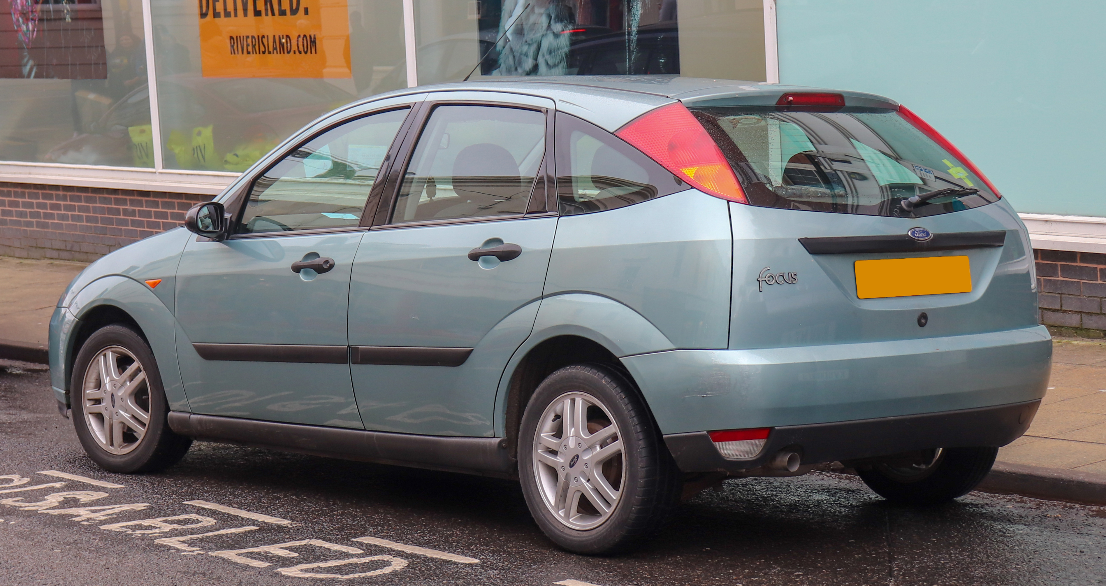 1999 Ford Focus Zetec 1.8 Rear Taken in Leamington Spa